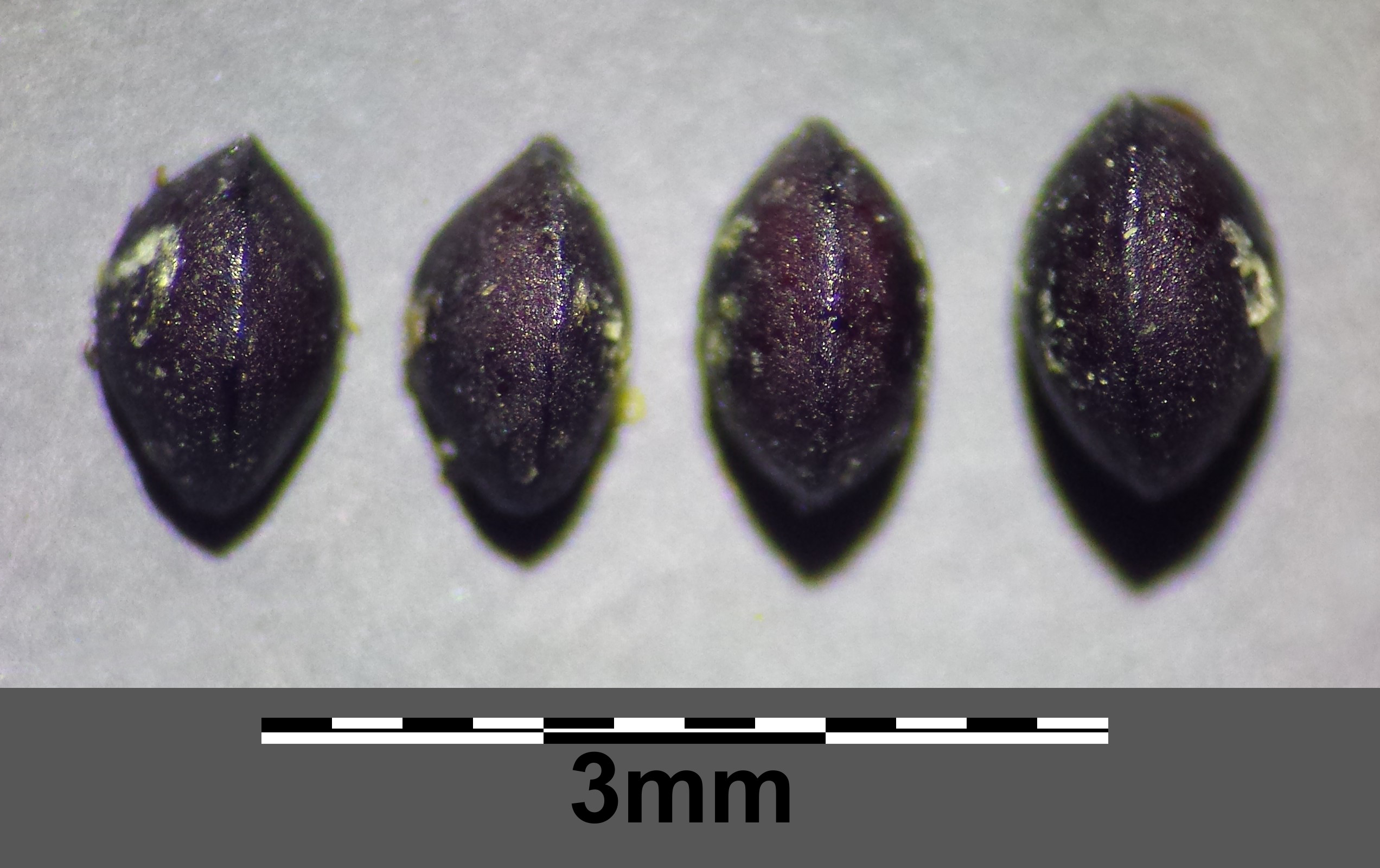 Side view of seeds (without shell) Taxonym: Chenopodium murale ss Fischer et al. EfÖLS 2008 ISBN 978-3-85474-187-9 Location: Stockerau, district Korneuburg, Lower Austria - ca. 170 m a.s.l. Habitat: flower bed